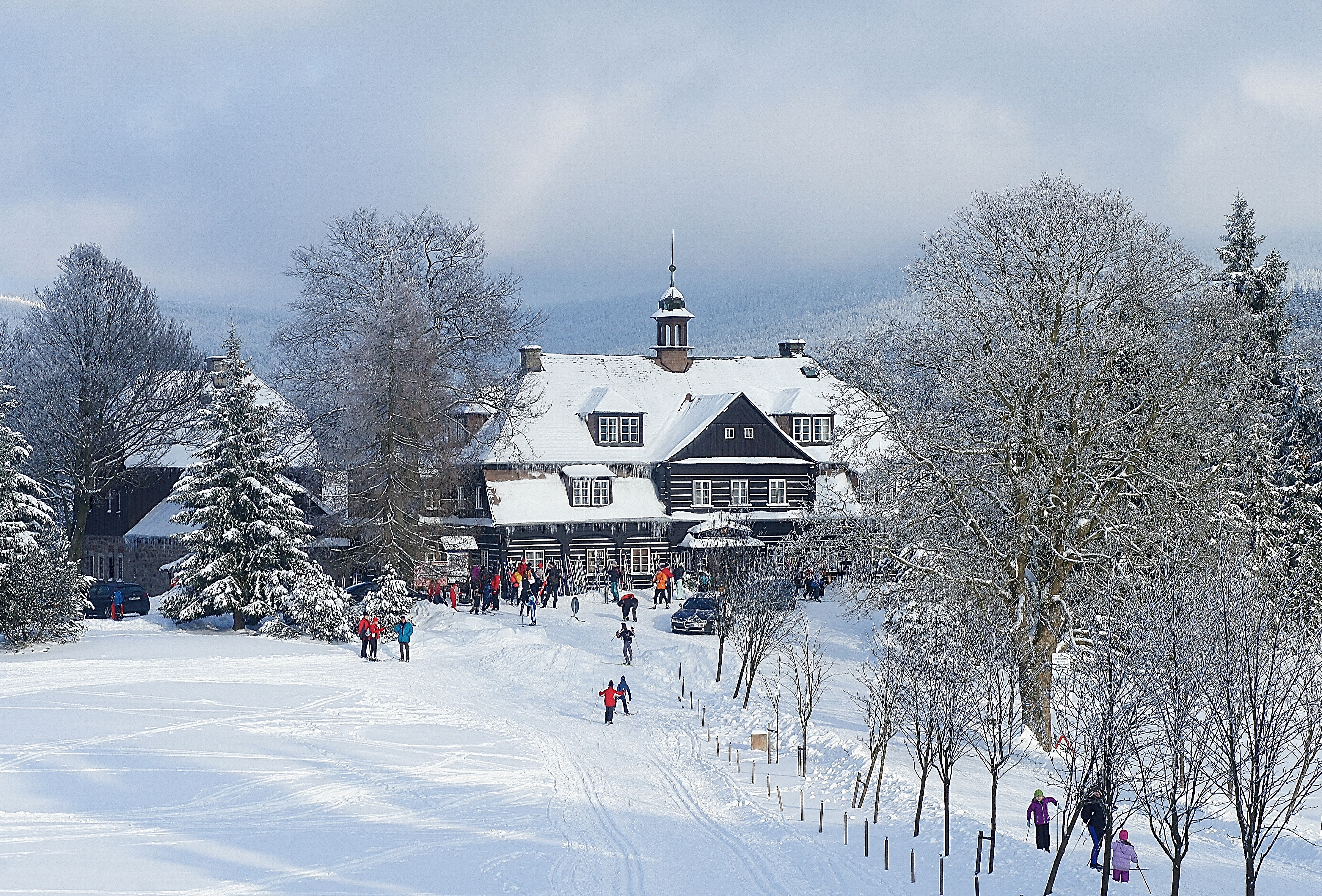 The Šámalova chata chalet (Liberec Region, Czechia).